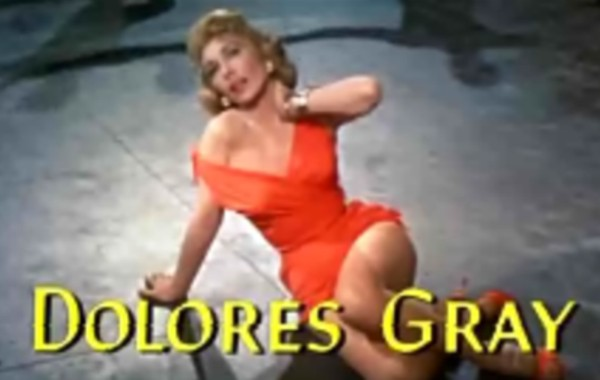 Cropped screenshot of Dolores Gray from the trailer for Designing Woman